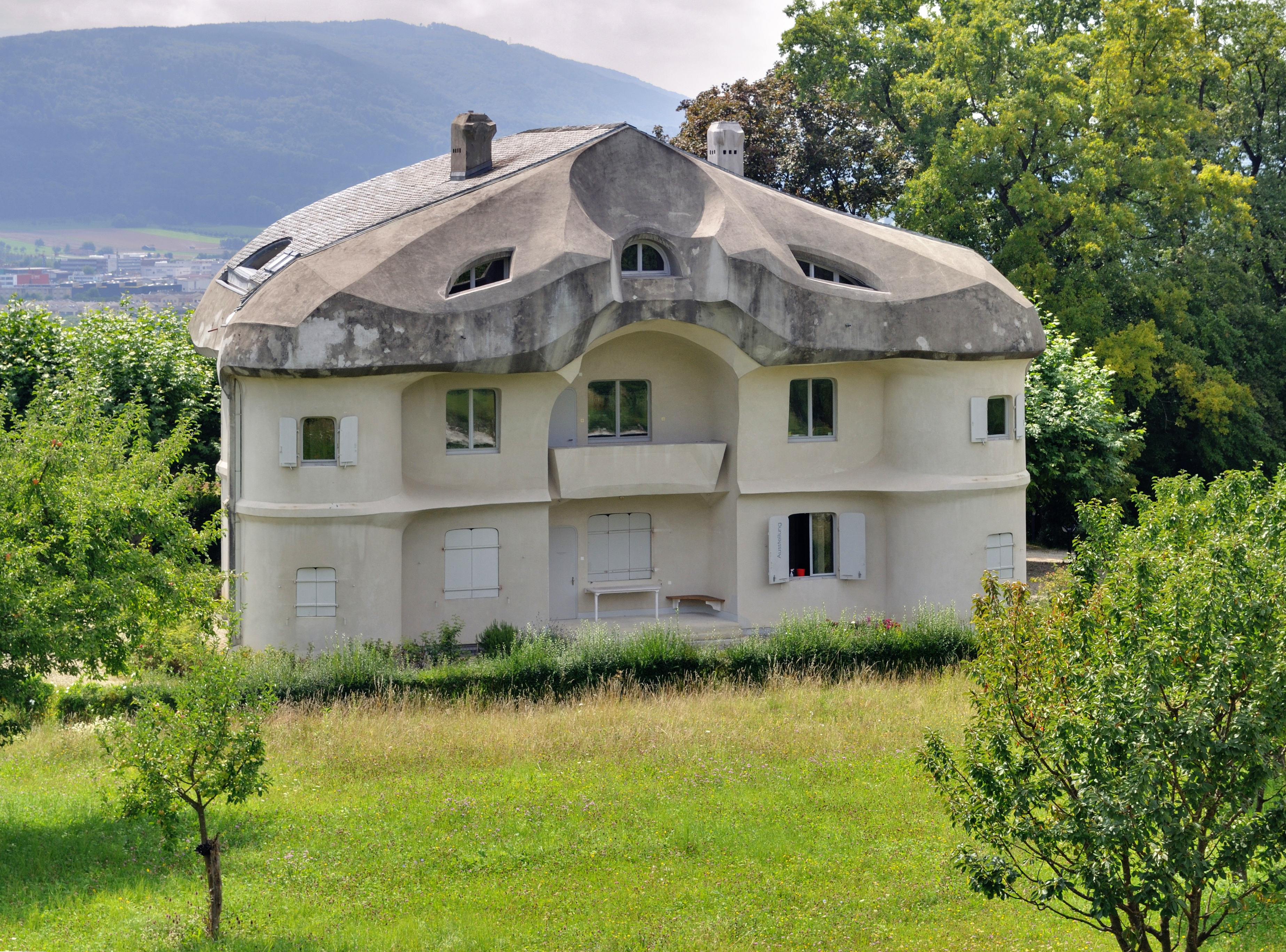 Duldeck House